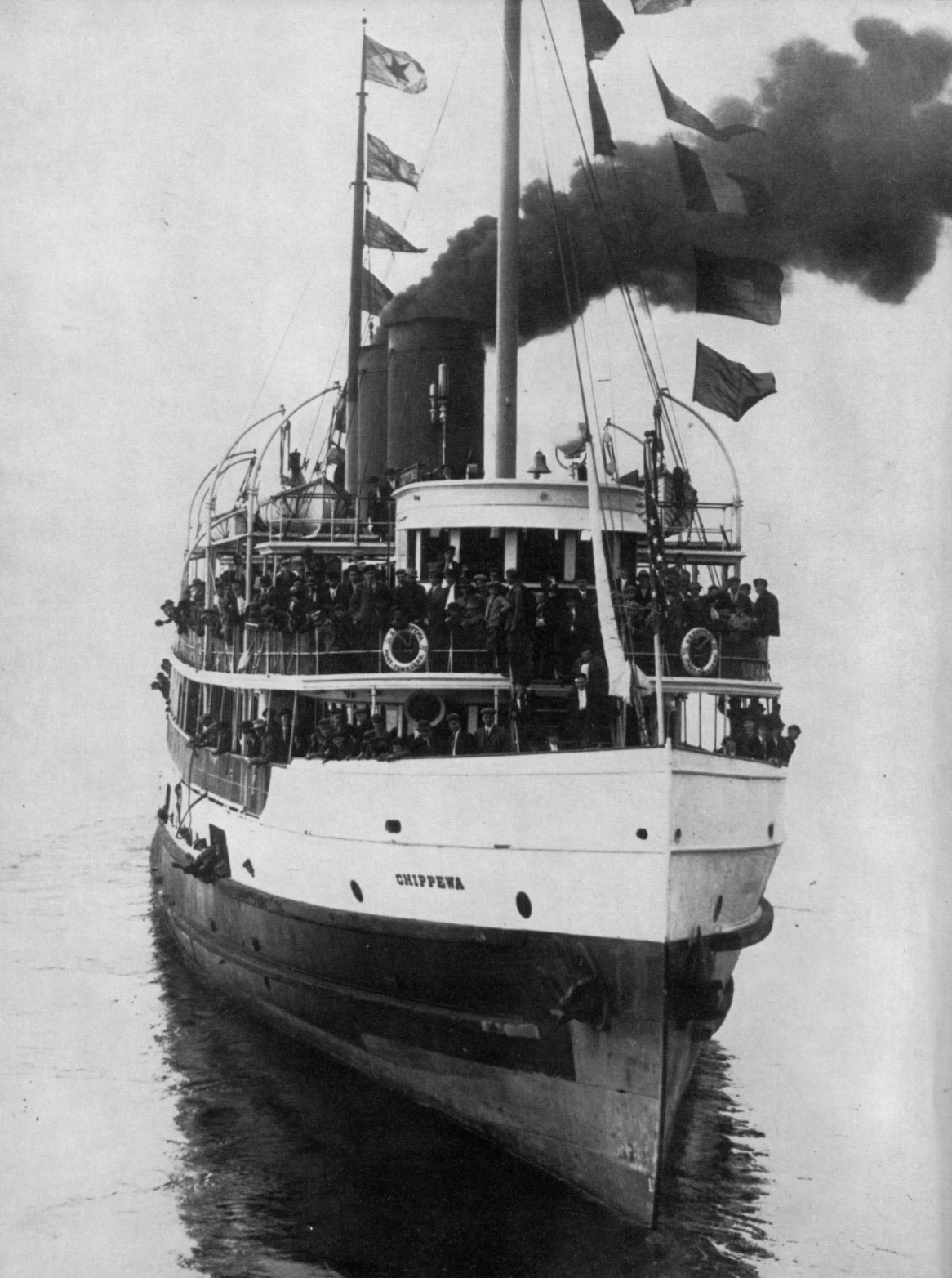 Chippewa, Great Lakes and Puget Sound steamship, built 1900 at Toledo, Ohio.